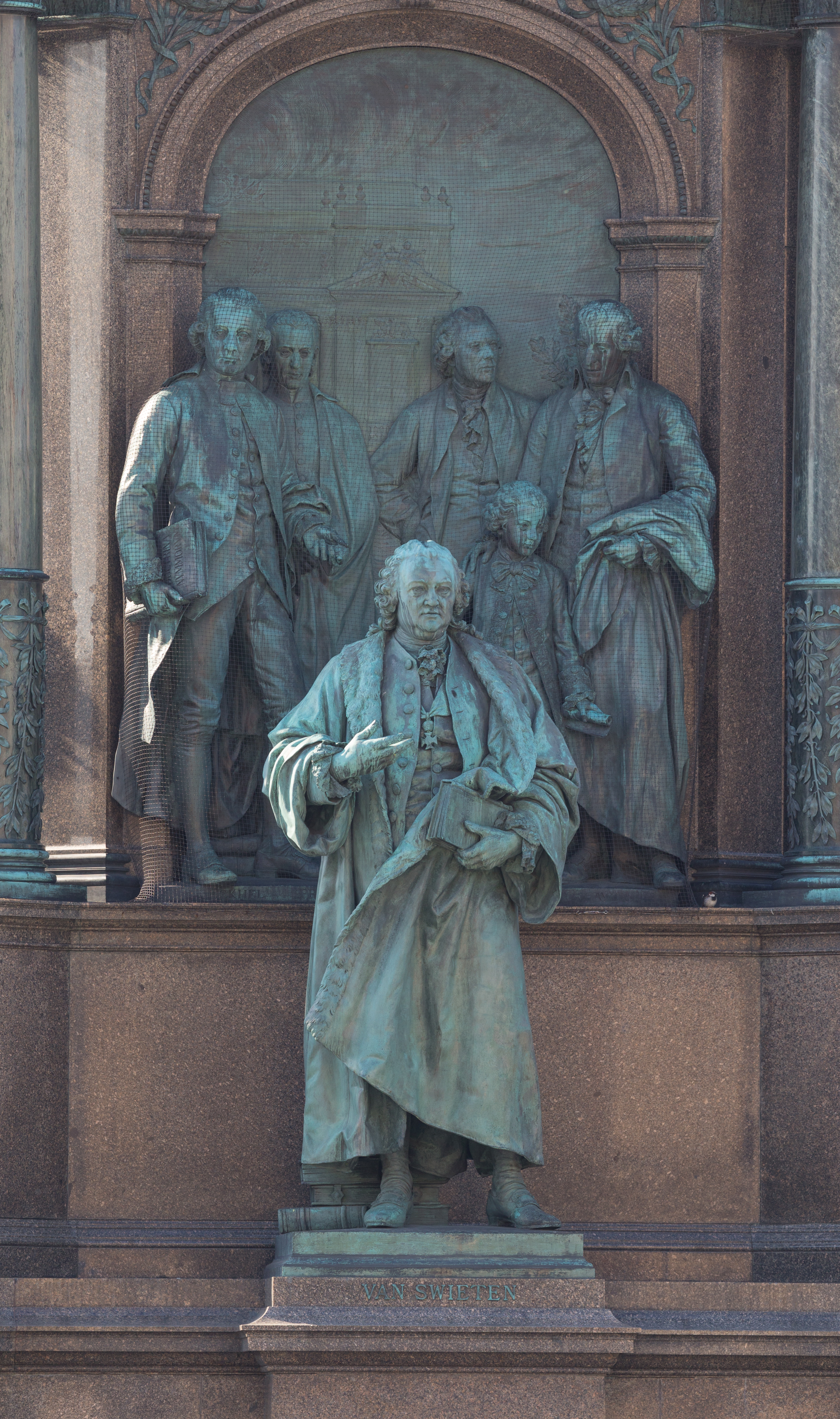 Maria-Theresia-square, Maria-Theresia monument, artist: Kaspar von Zumbusch (errected 1874-1888), main figure The making of this work was supported by Wikimedia Austria. For other files made with the support of Wikimedia Austria, please see the category Supported by Wikimedia Österreich.